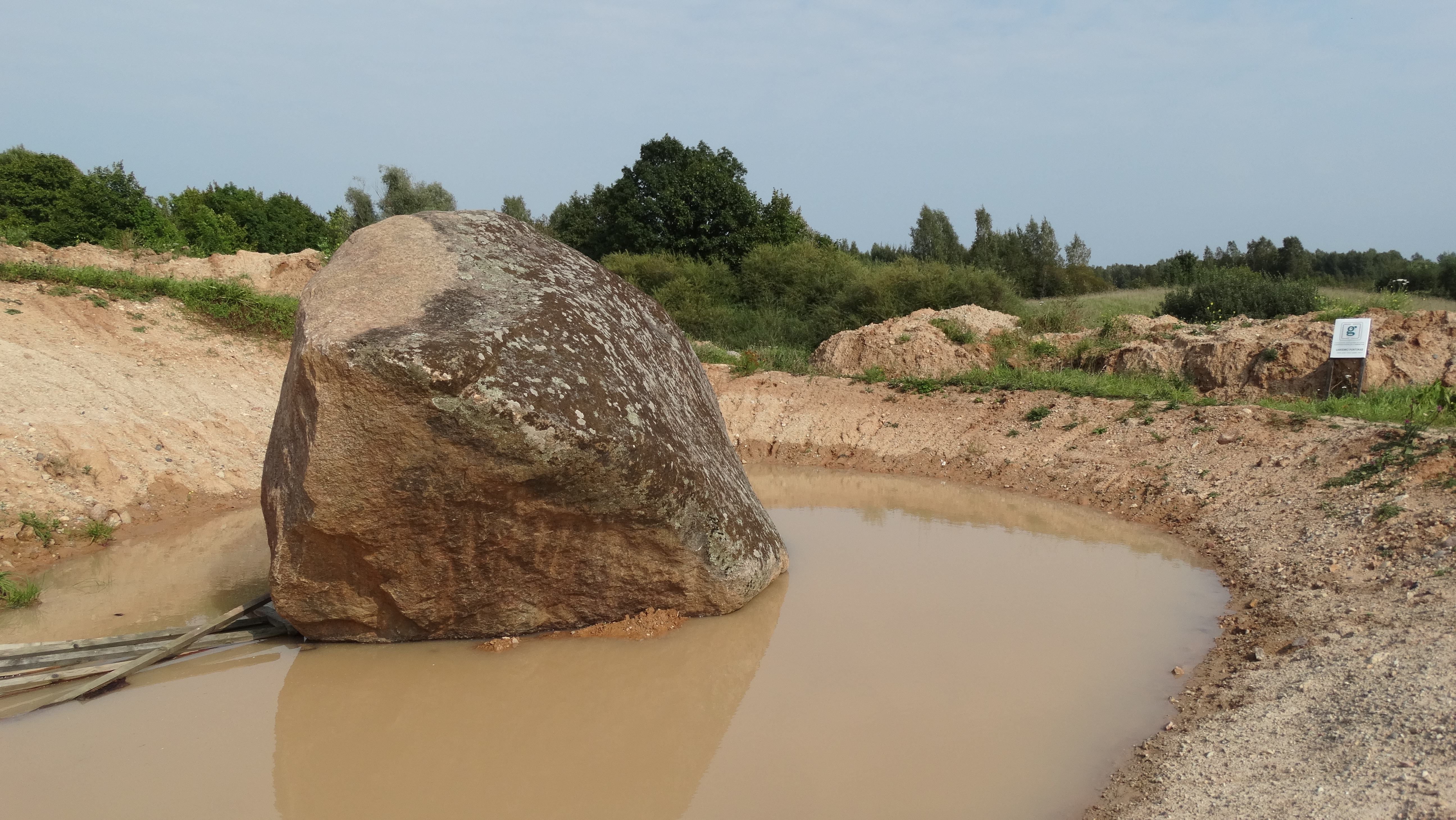 Biliakiemis Puntukas Stone (excavated), Utena District, Lithuania